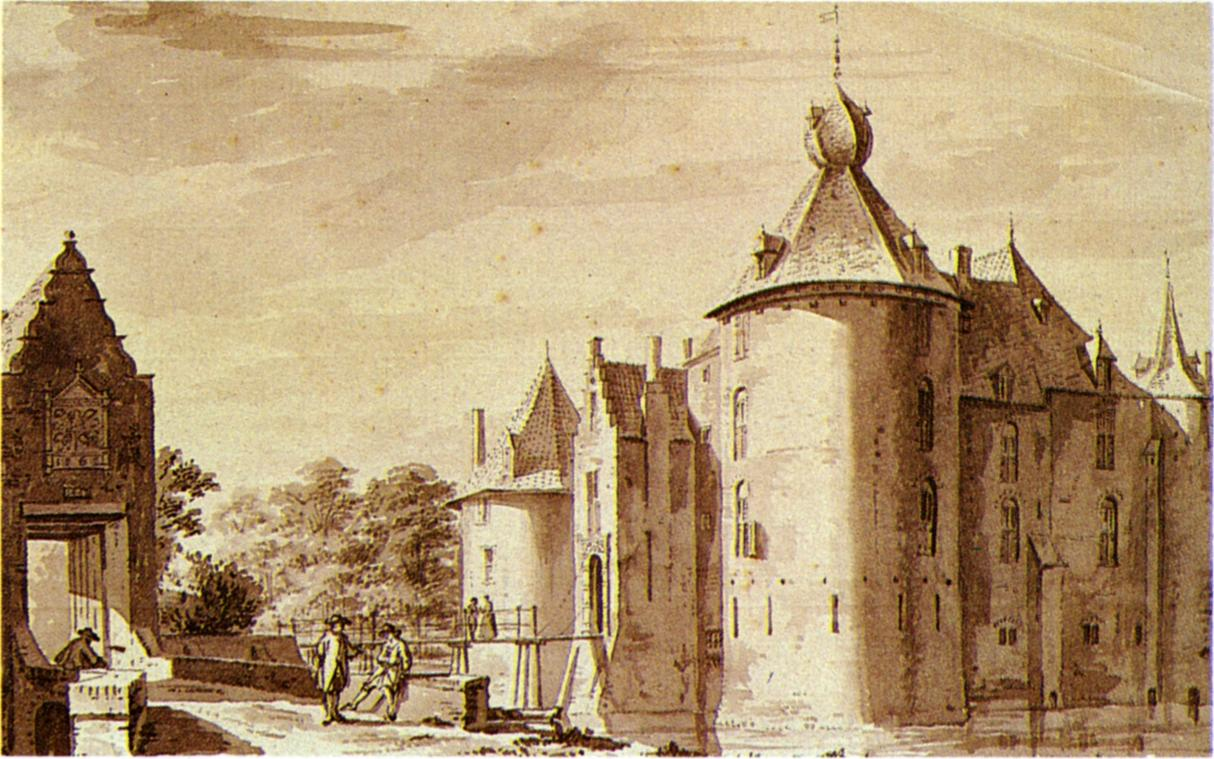 Abraham de Haen (II). Ammersoyen Castle from the north west. 1734. Pencil and ink on paper (?). Dimensions unknown. Arnhem, Gemeentemuseum.